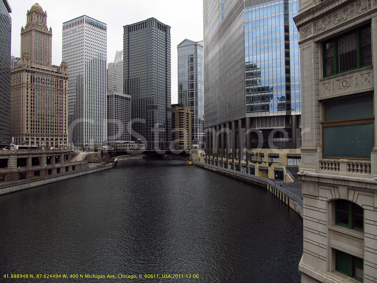 Author: Michael Lee 2011; Subject: Geotagged image stamped with GPStamper